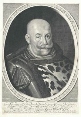 Christoph Radziwiłł (1585-1640) Polish-Lithuanian noble